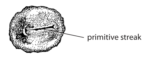 Standard Event System character depiction